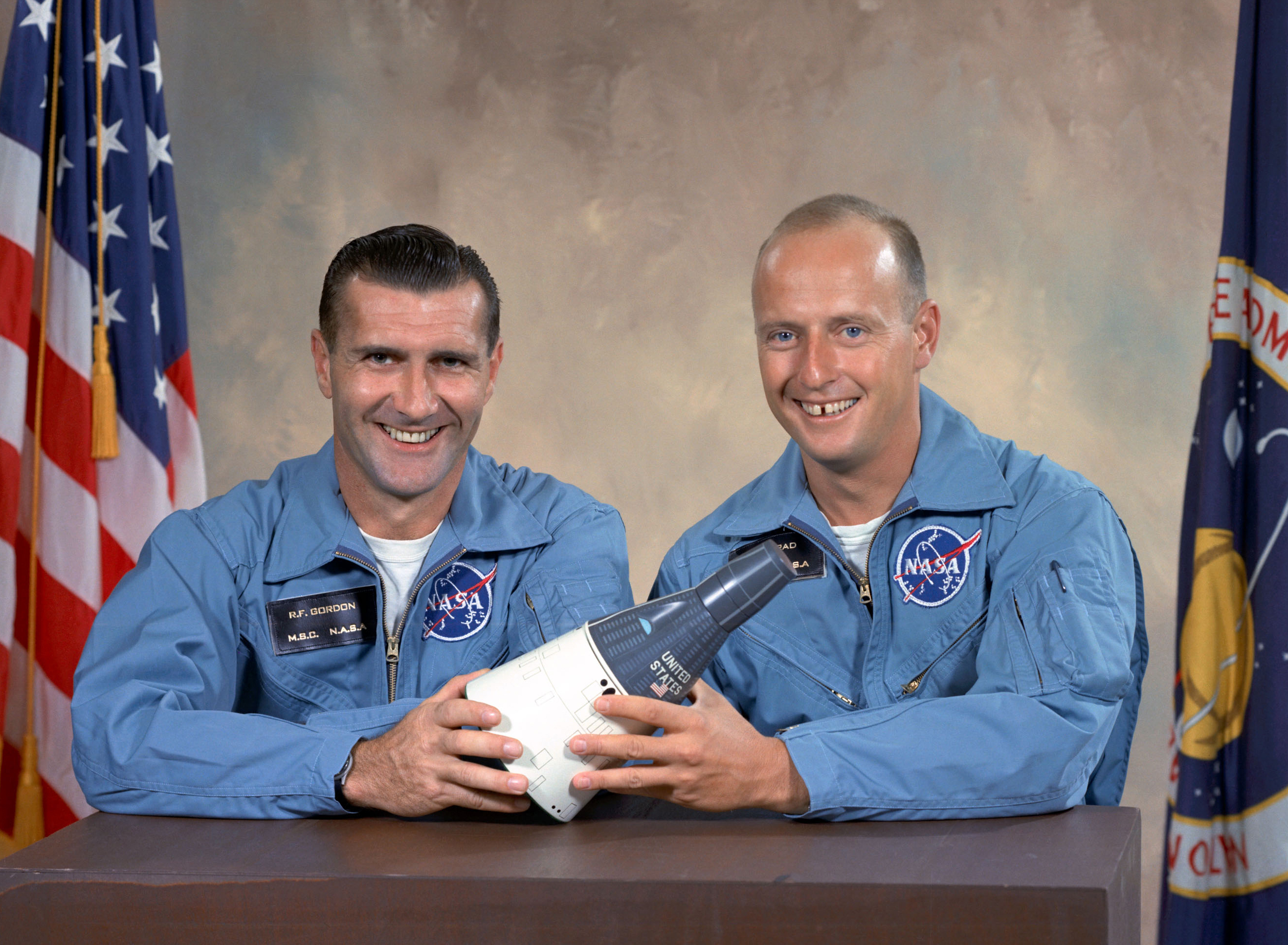 Portrait of the Gemini 8 backup crew, they later become the Gemini 11 prime crew. Astronauts Charles Conrad Jr. (right), prime crew command pilot, and Richard F. Gordon JR., prime crew pilot, for the Gemini 11 earth-orbital mission.